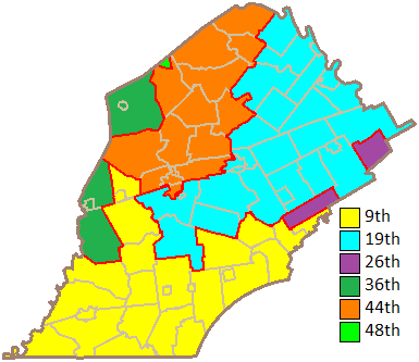 The Pennsylvania State Senate in Chester County